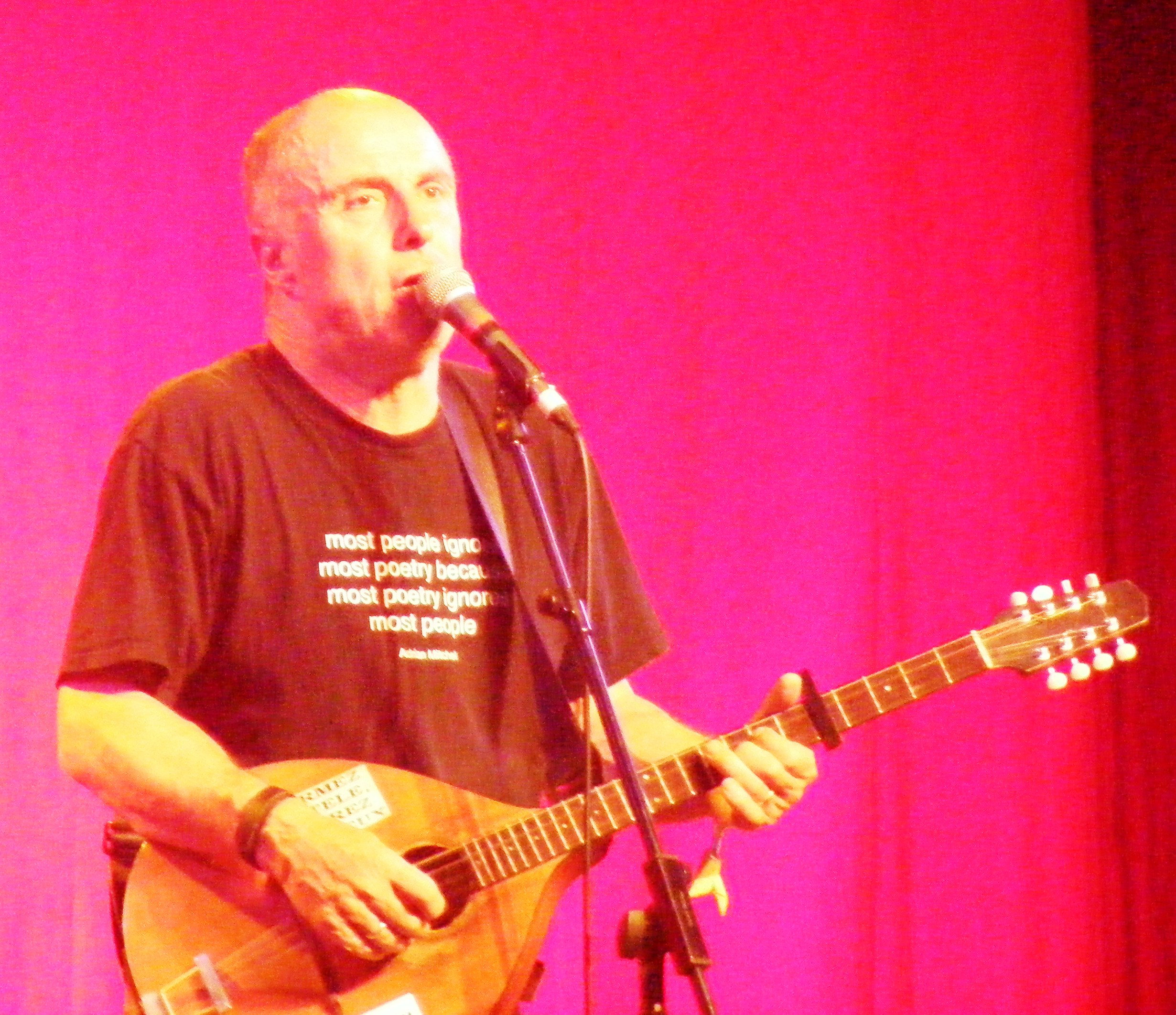 Attila the Stockbroker, taken in the Cabaret Tent at the 2010 Glastonbury Festival